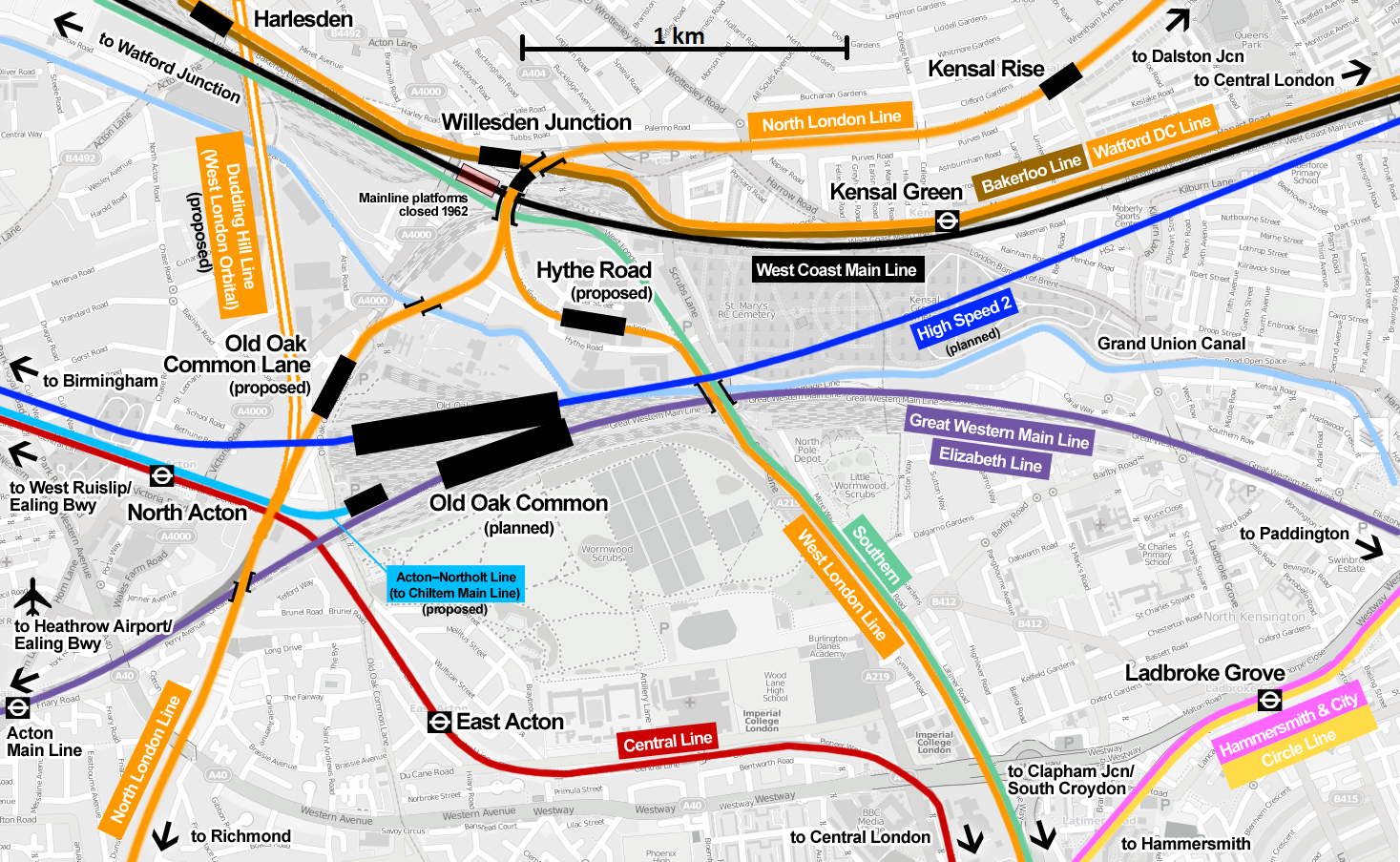 Map of Willesden Junction railway station with the proposed Old Oak Common railway station (planned to open 2026 or later) serving Crossrail and High Speed 2 This map may be incomplete, and may contain errors. Don't rely solely on it for navigation.